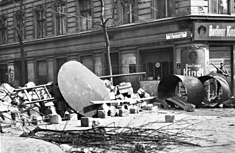 Barricades in Berlin-Neukölln after riots on May 1st 1929. Picture was taken at Prinz-Handjery-Straße, today Briesestraße.